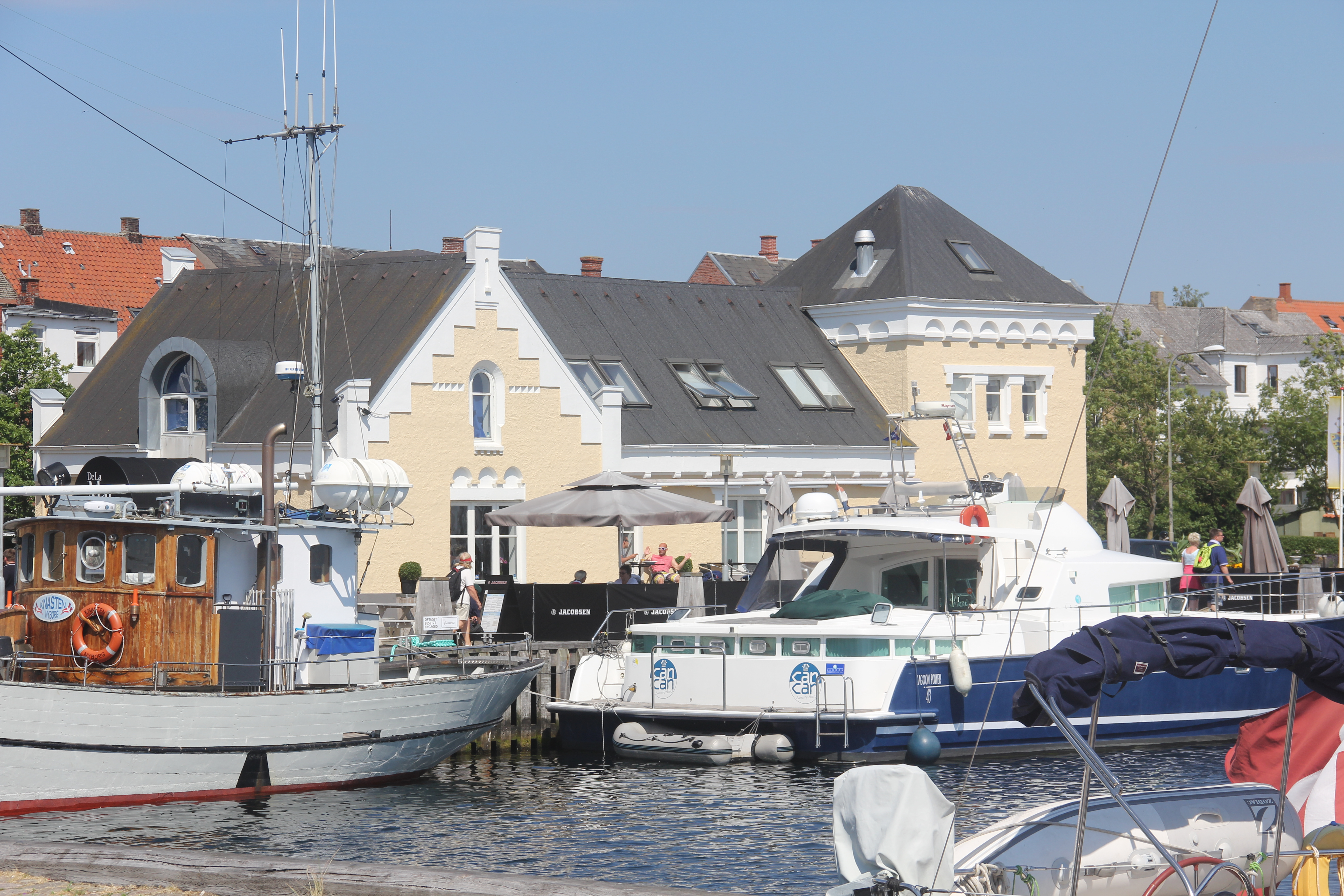 Nyborg Marina